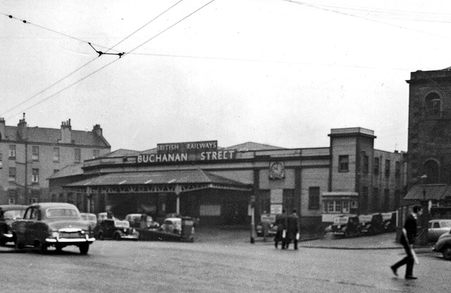 Glasgow Buchanan Street Station, entrance. View NE, from Buchanan St. to entrance of ex-Caledonian terminus of main lines to Stirling, Perth, Aberdeen etc. This station, also Sighthill Goods Station, was closed on 7/11/66, the passengers services remaining being diverted to Queen St. (High Level). [My apologies for the poor photograph - pouring rain, again!]